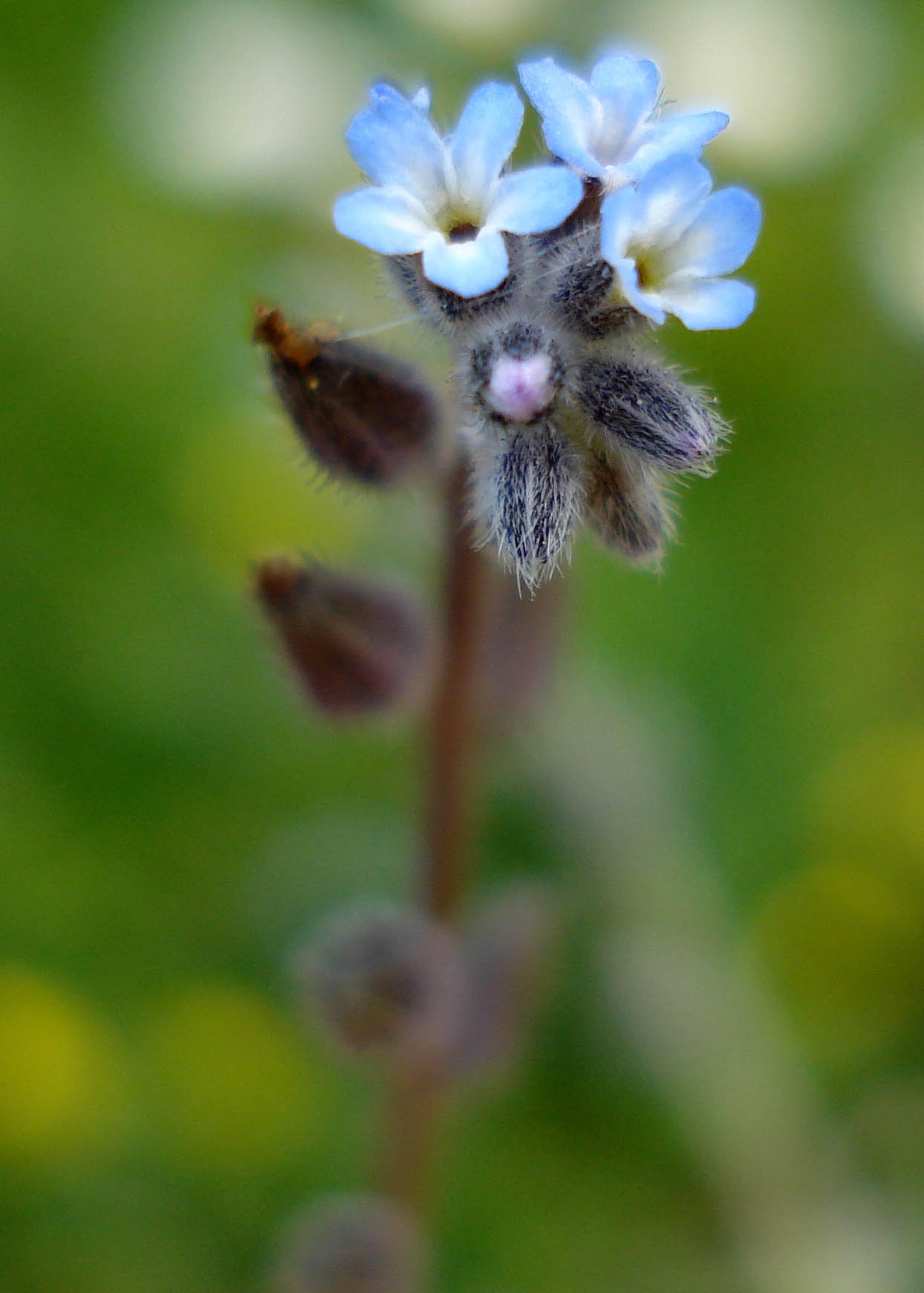 Myosotis stricta, Unterfranken (Germany)